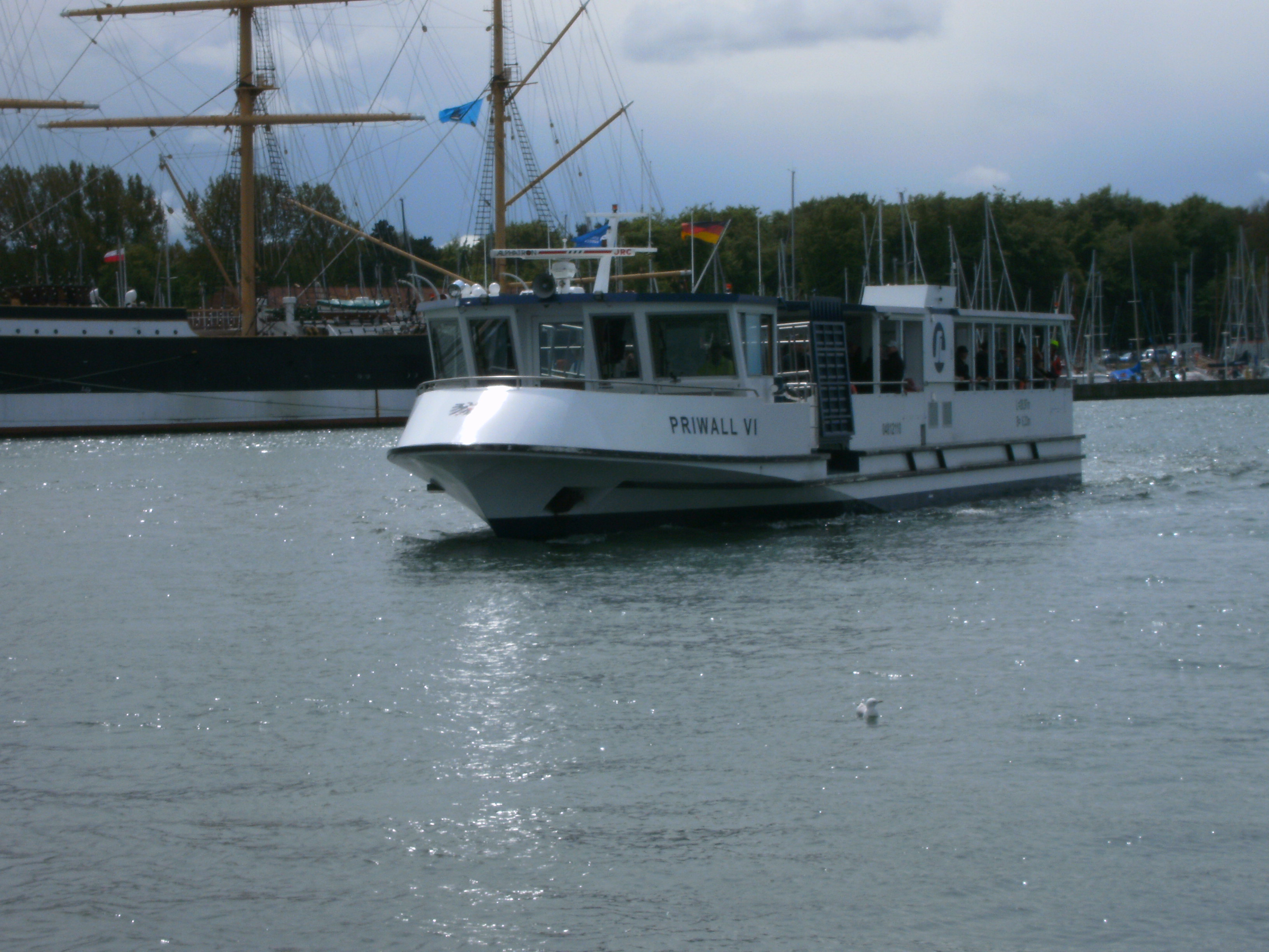 Small ferry for persons Priwall VI crossing Trave for Travemünde in Germany.